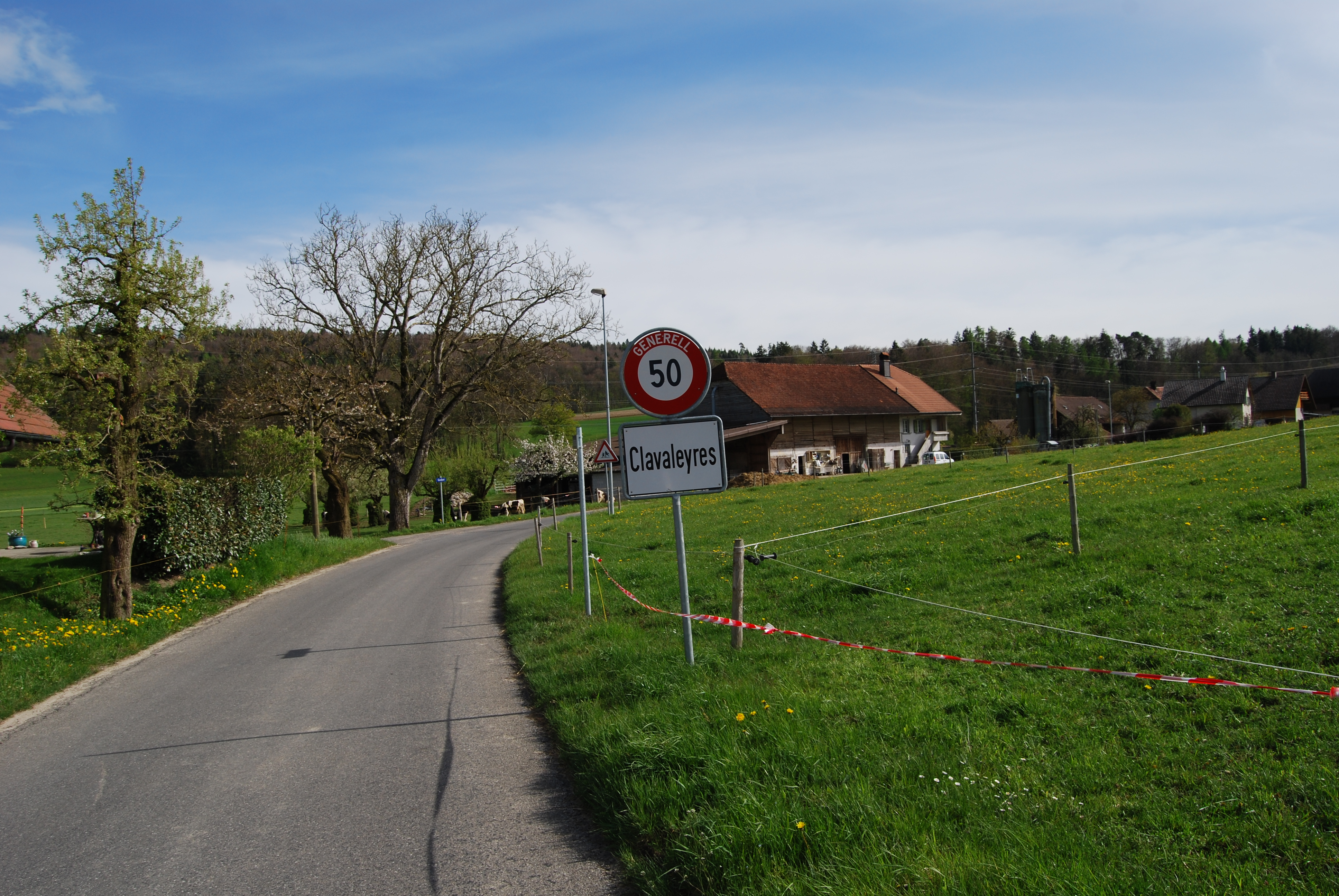 Clavaleyres, canton of Bern, SwitzerlandEsperanto: Clavaleyres, Kantono Berno, Svislando